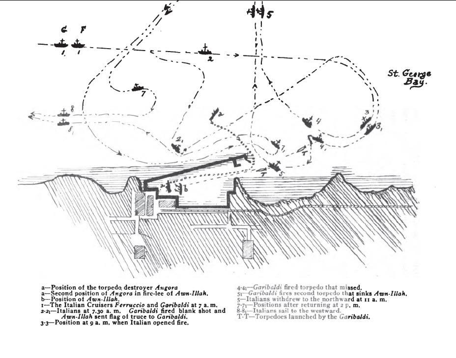 Sketch of warship positions at the battle of beirut